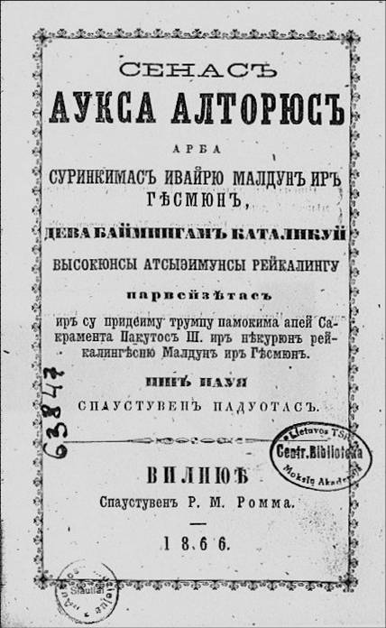 Popular Lithuanian prayer book "Auksa altorius" (Golden Altar) published in Cirillics by Tsarist authorities when Lithuanian press ban was instituted